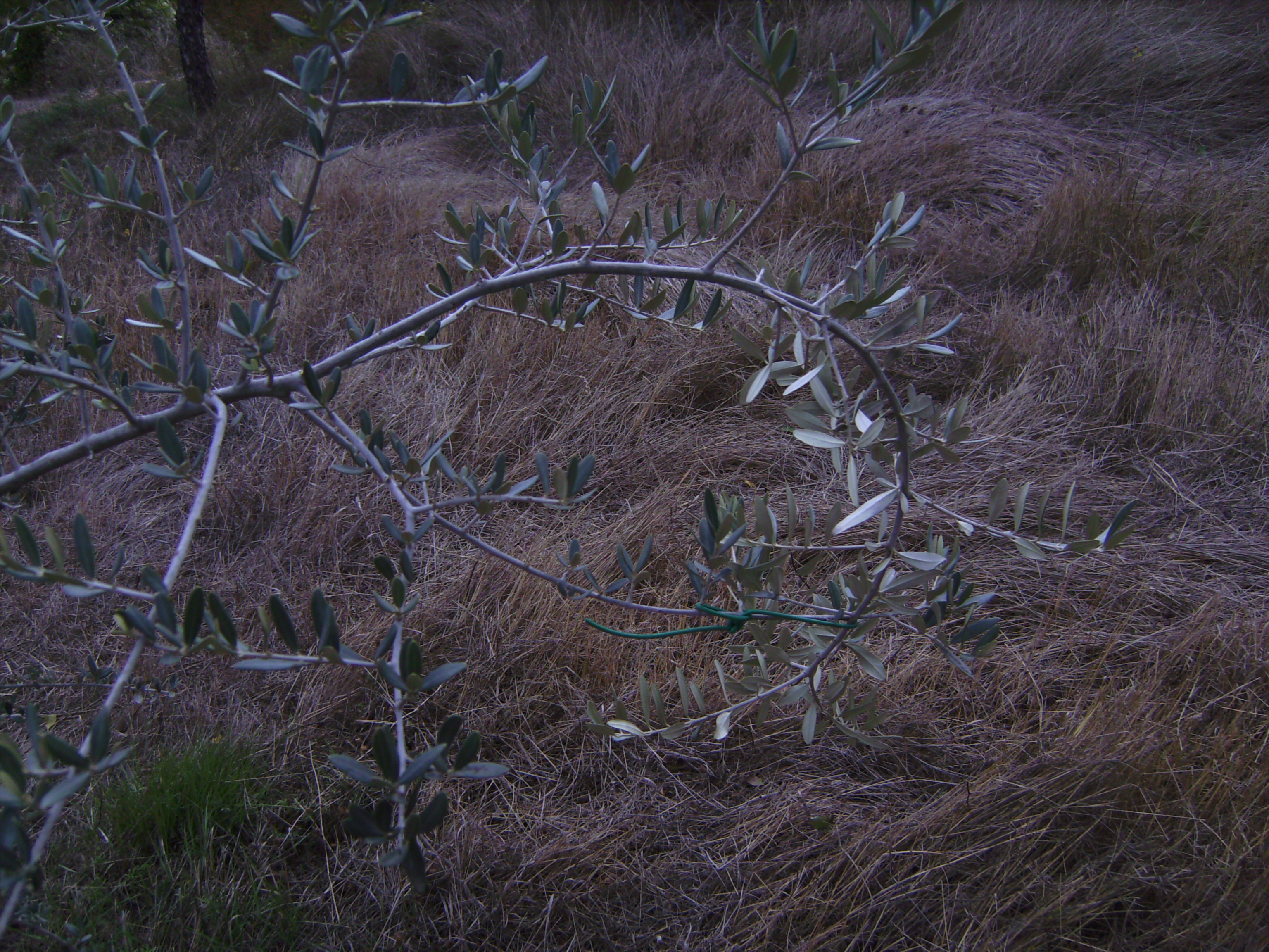 Bowed branch of a young olive tree to prpmptr flowering, Castelltallat, Catalonia